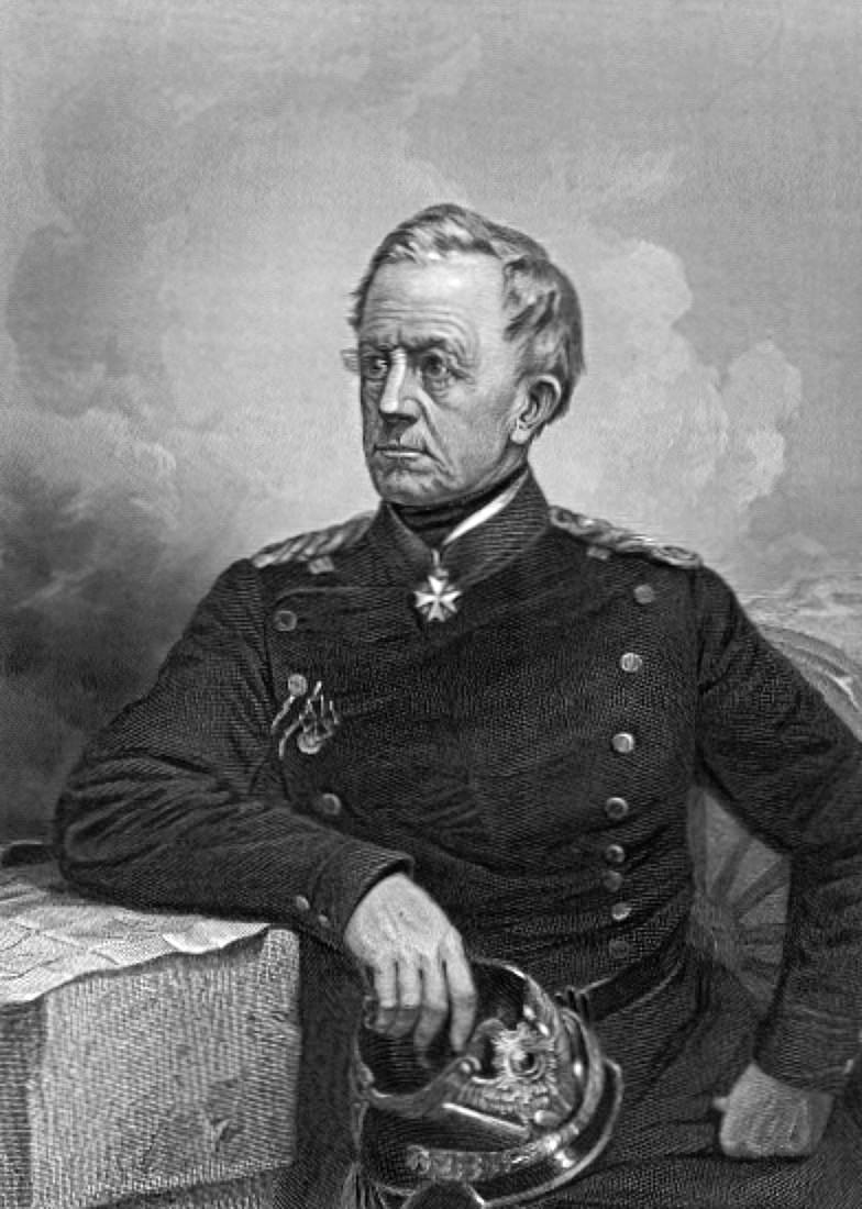 Count Helmuth Karl Bernhard von Moltke, 1800-1891, prussian field marshal, chief of the general staff of Prussia, called MOLTKE THE ELDER).